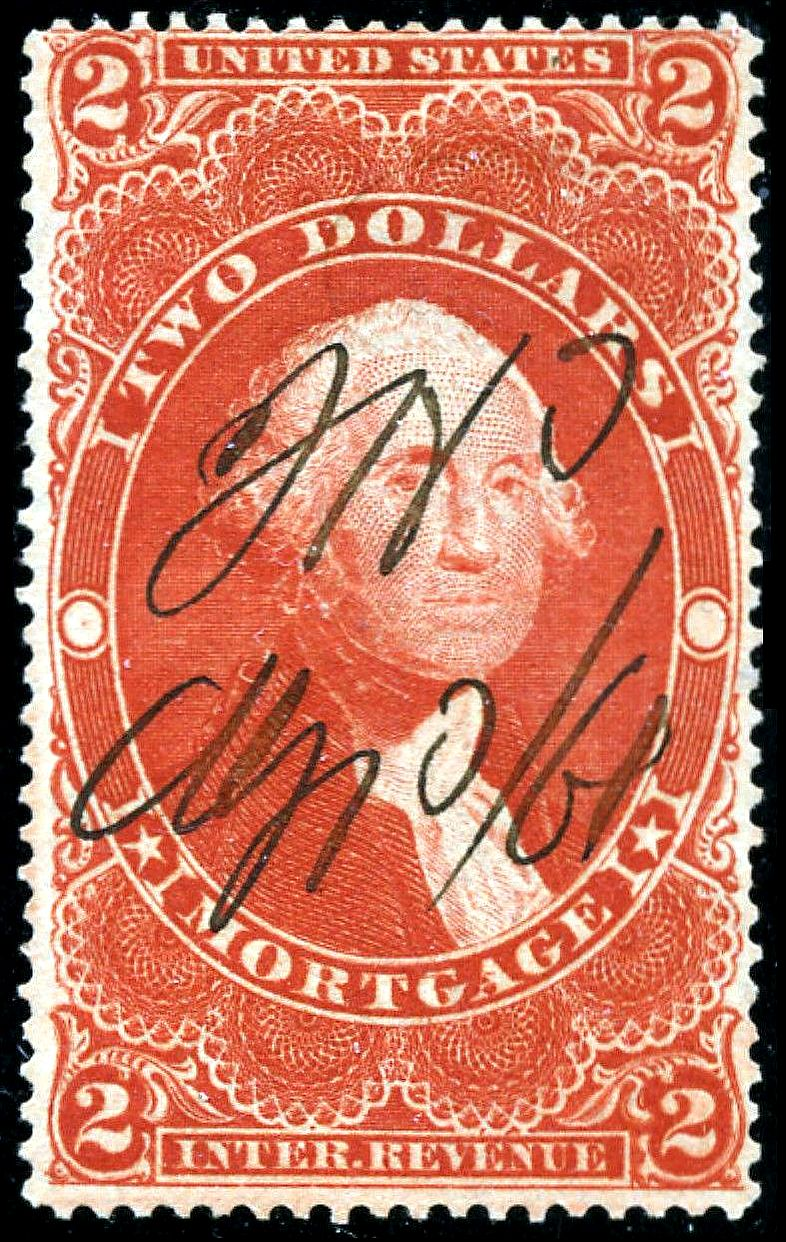 Image of Mortgage tax stamp, Washington, $2 orng